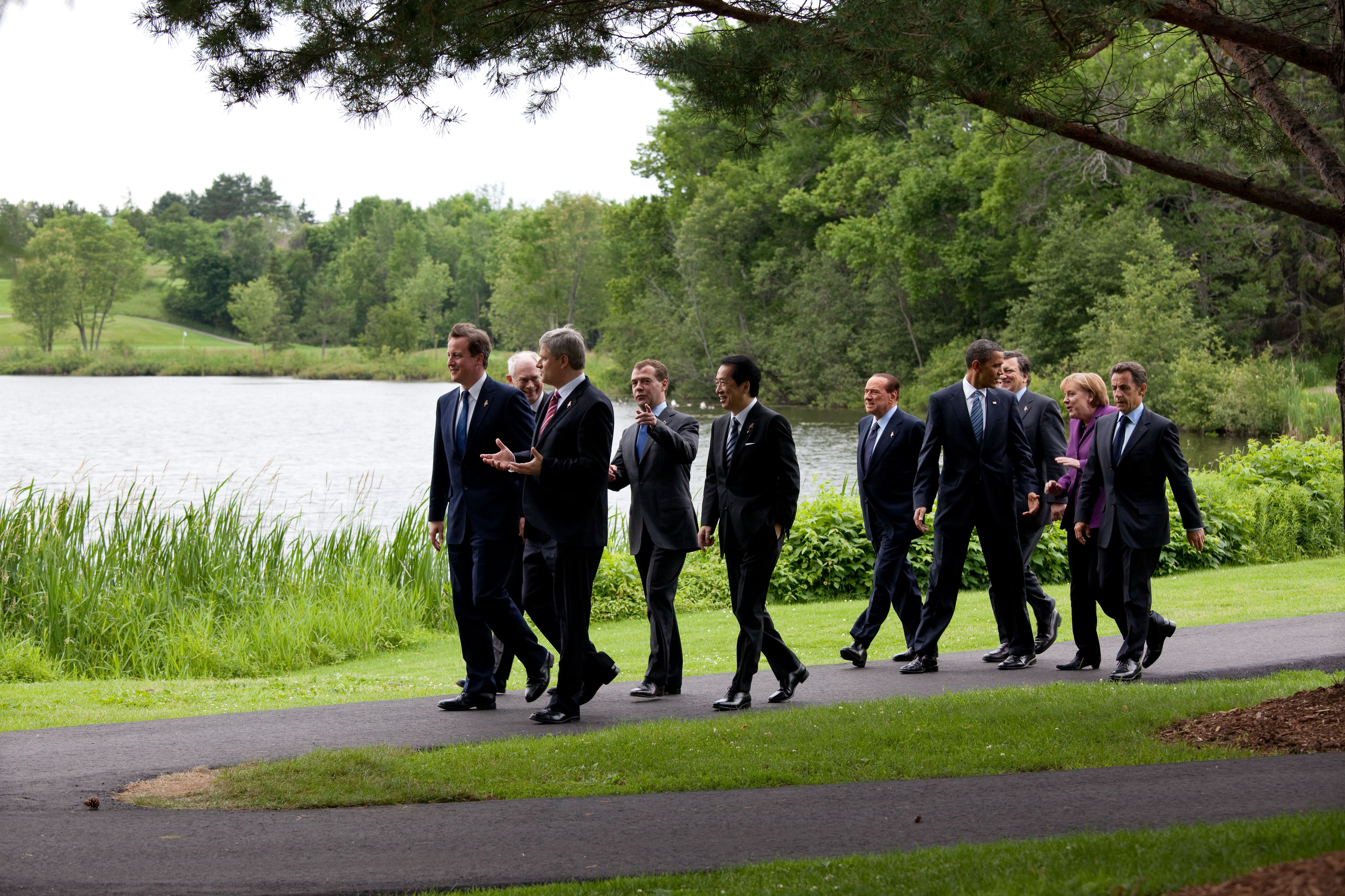 David Cameron, Prime Minister, Herman Van Rompuy, President of the European Council, Stephen Harper, Prime Minister, Dmitry Medvedev, President, Naoto Kan, Prime Minister, Silvio Berlusconi, Prime Minister, Barack Obama, President, José Manuel Barroso, President of the European Commission, Angela Merkel, Chancellor, and Nicolas Sarkozy, President, walked at the 36th G8 summit in Muskoka District Municipality, Ontario Province on June 25, 2010.